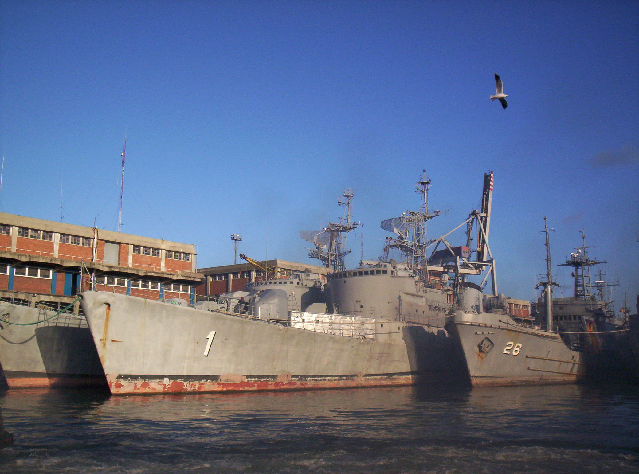 Area Naval del Puerto de Montevideo (Naval Base of the Port of Montevideo, apparently including the former Cdt. Rivere-class ROU 01 Uruguay & ROU 26 Vanguardia)